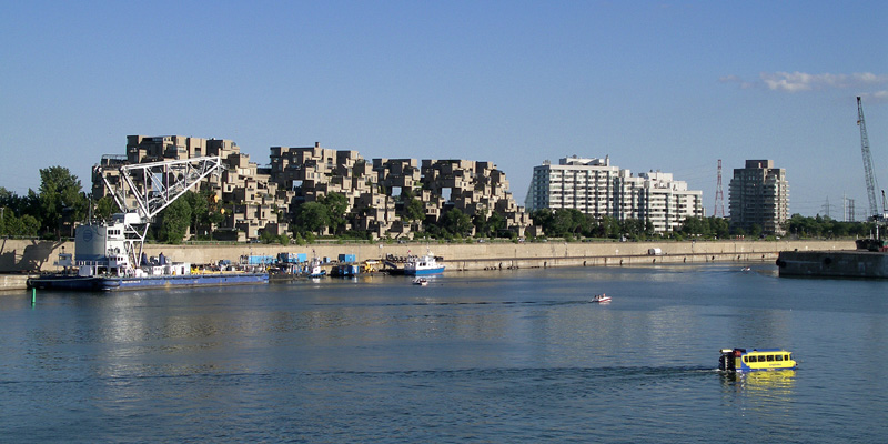 The whole Habitat 67, in the Cité du Havre and its port setting. West of it ( on the right in this photo), Tropiques Nord and Profil O residential buildings.